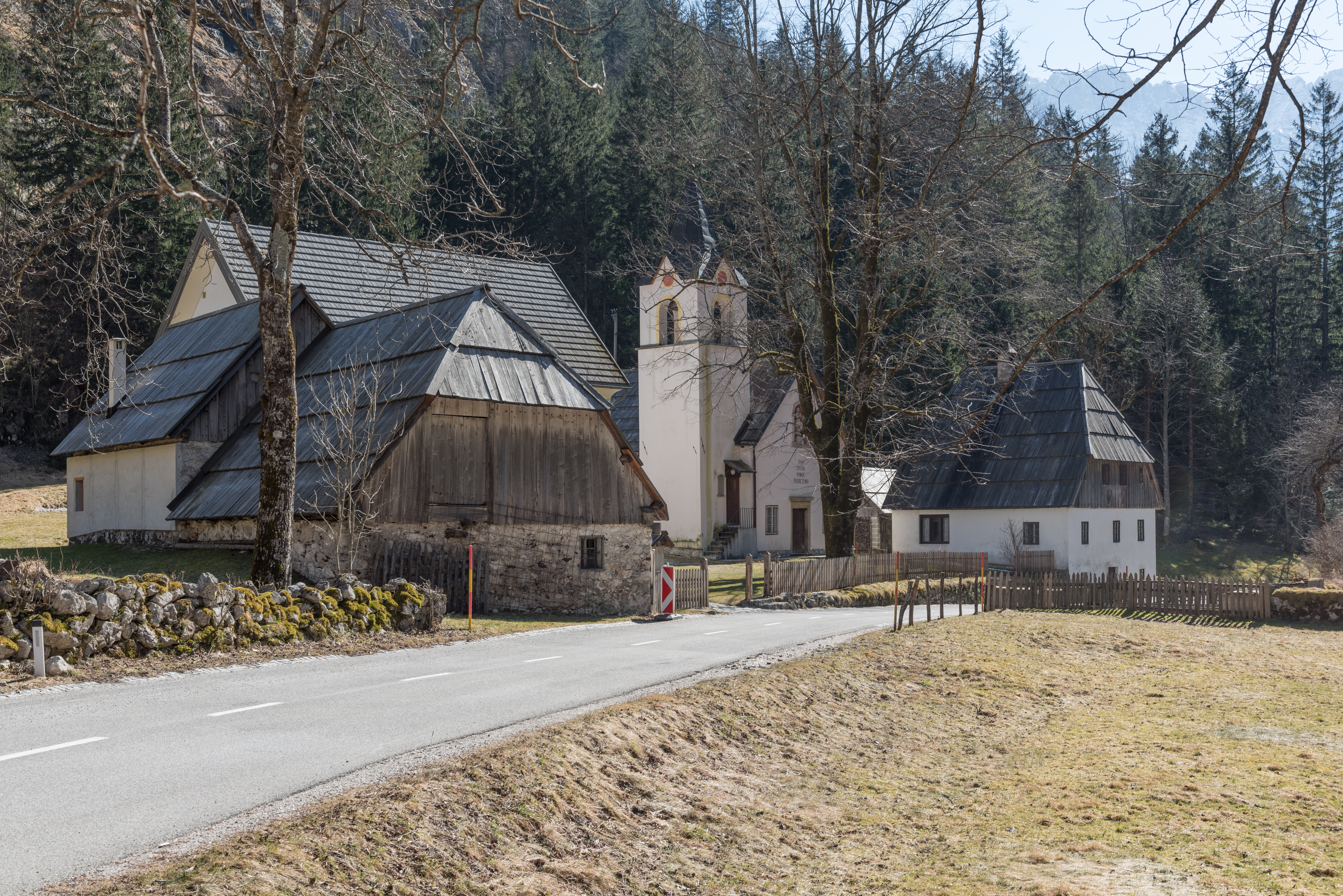 Church Saint Madonna of Loreto on the upper part of the Soča valley, Pri Cerkvi, Trenta, Slovenija, EU